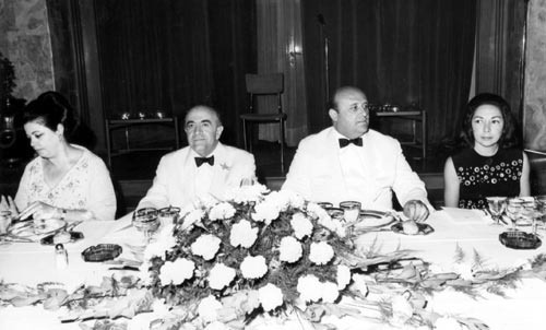 From left: Nazmiye Demirel, Amir Abbas Hoveida (Prime Minister of Iran), Süleyman Demirel (Prime Minister of Turkey), and Leila Emami in offician dinner in Ankara